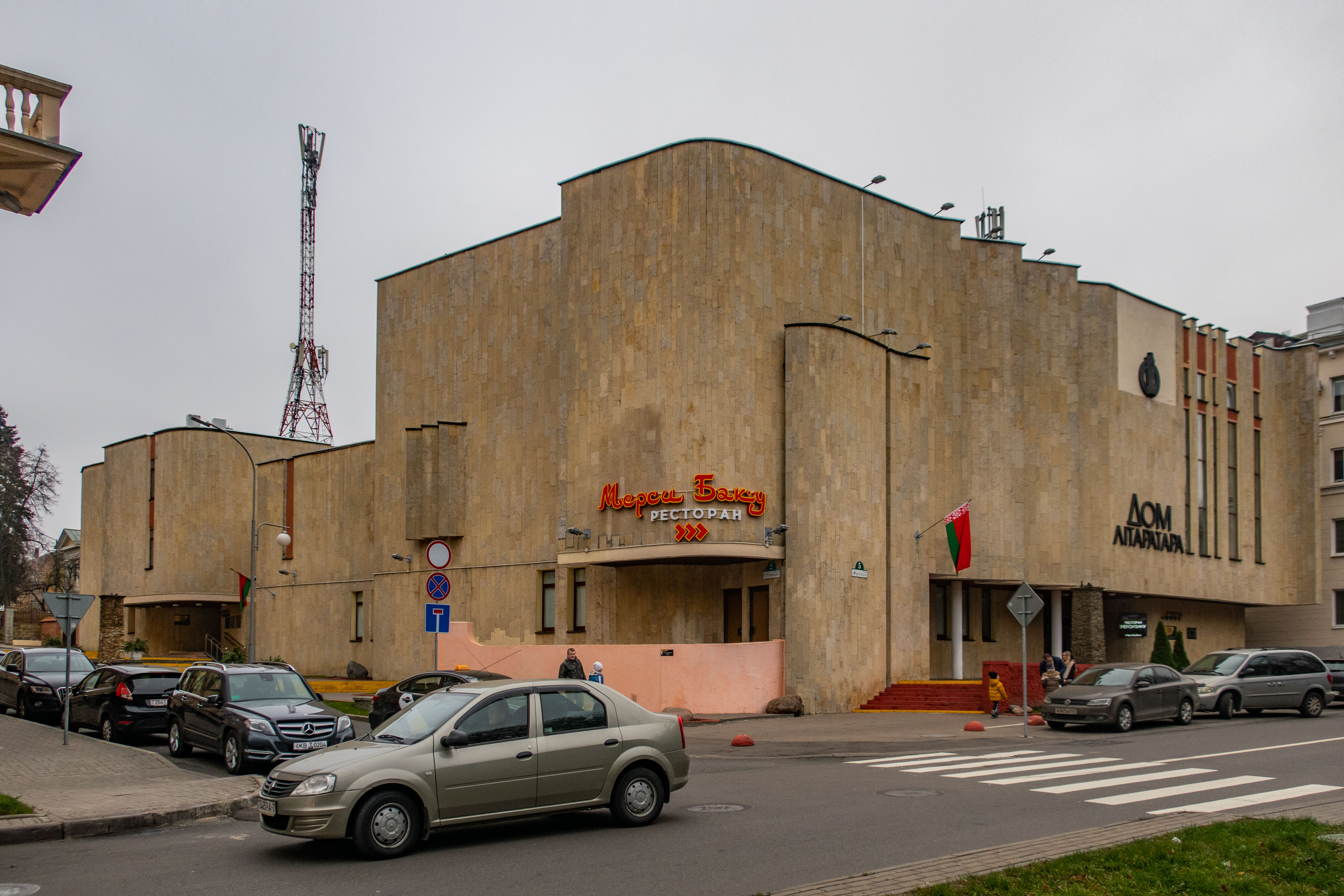 Frunze street. Minsk, Belarus